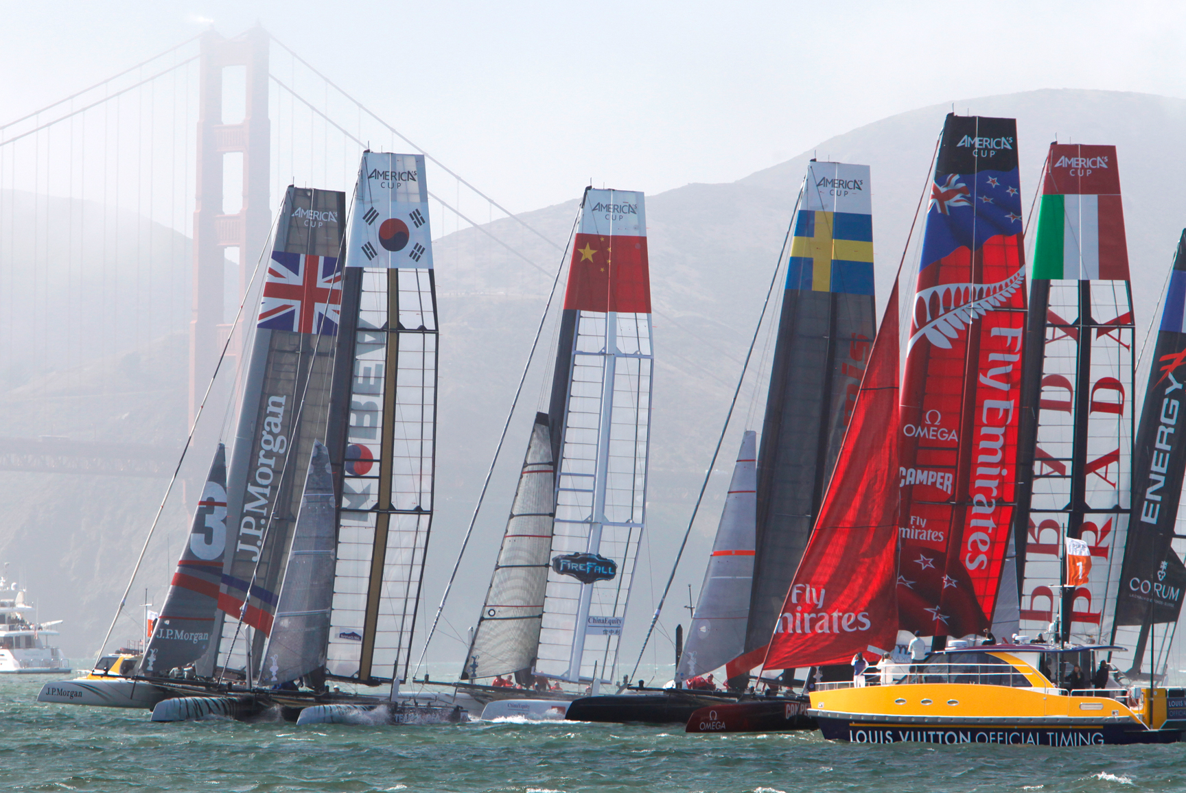 AC 45s rounding the first mark in San Francisco